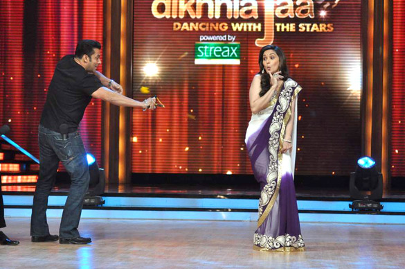 Salman Khan and Madhuri Dixit reenacting the famous scene of their 1994 film Hum Aapke Hai Koun..!. In the song "Didi Tera Dewar Deewana" Khan uses a slingshot to hit Dixit with a marigold flower. This photograph is taken on the sets of the celebrity dancing competition show Jhalak Dikhhla Jaa 5 where Dixit was judge and Khan visited to promote his film Ek Tha Tiger.